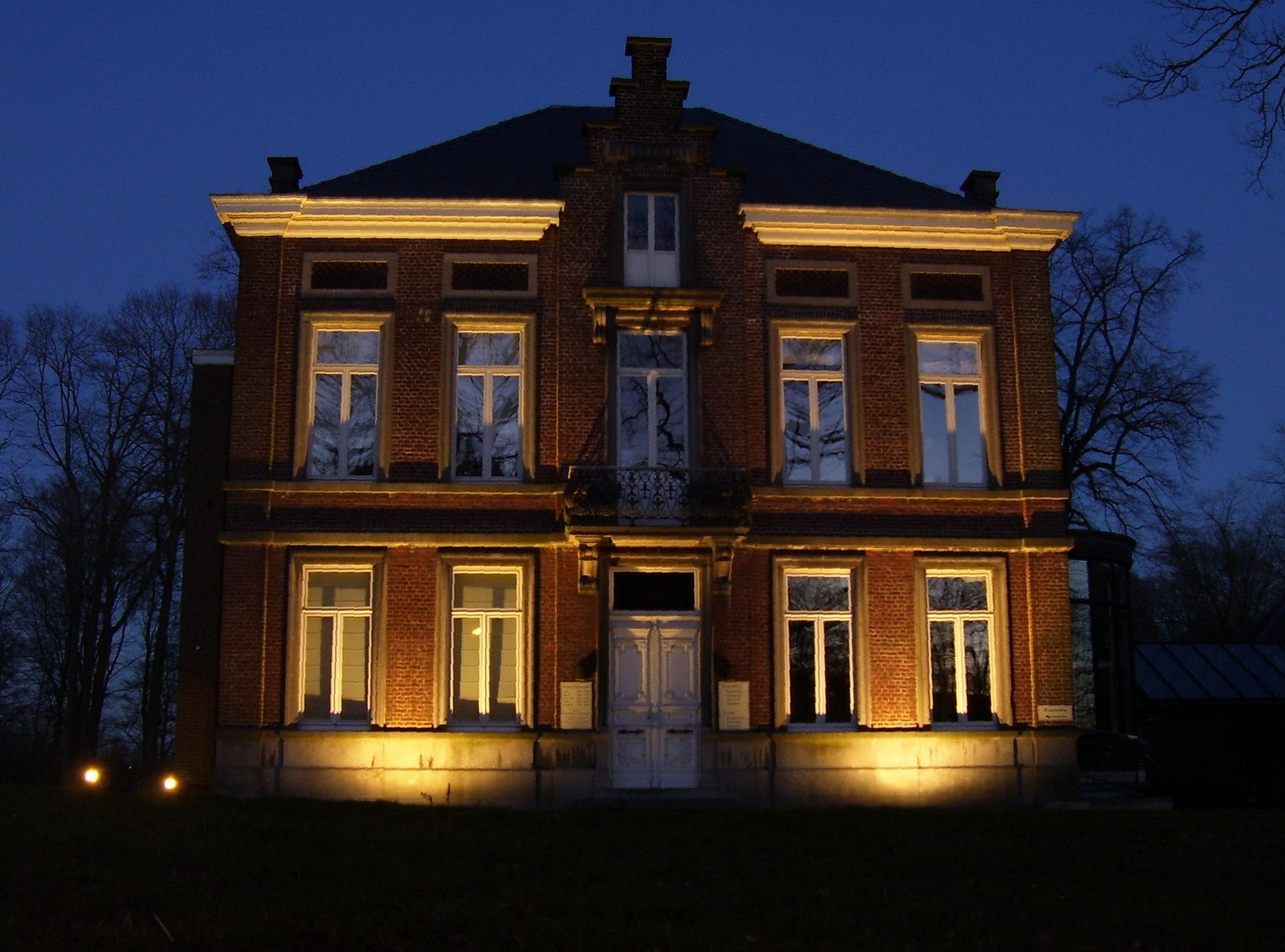 Maison Communale (municipality) of Lasne, Belgium